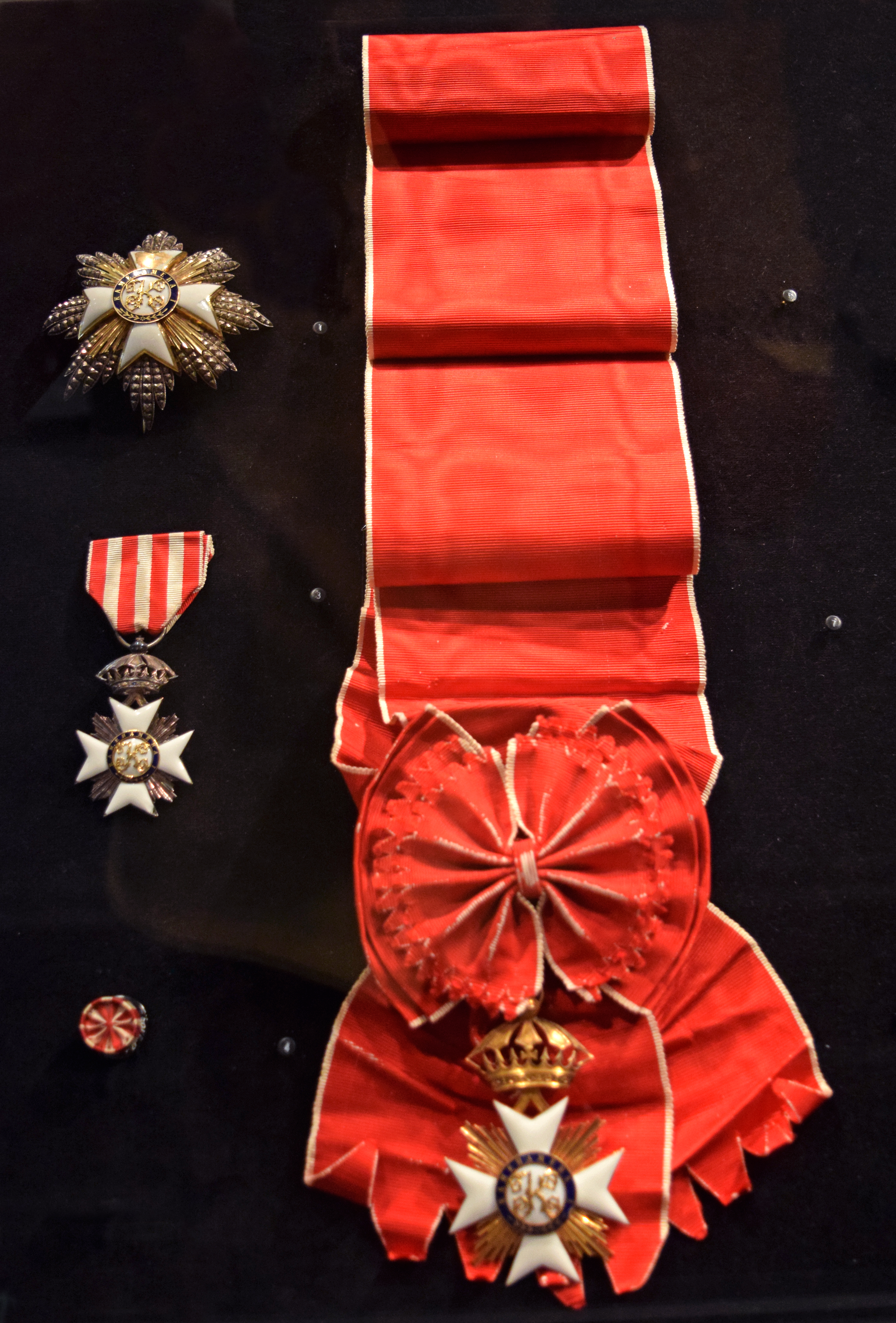 The Royal Order of Kamehameha I with breast badge, neck badge and sash with order